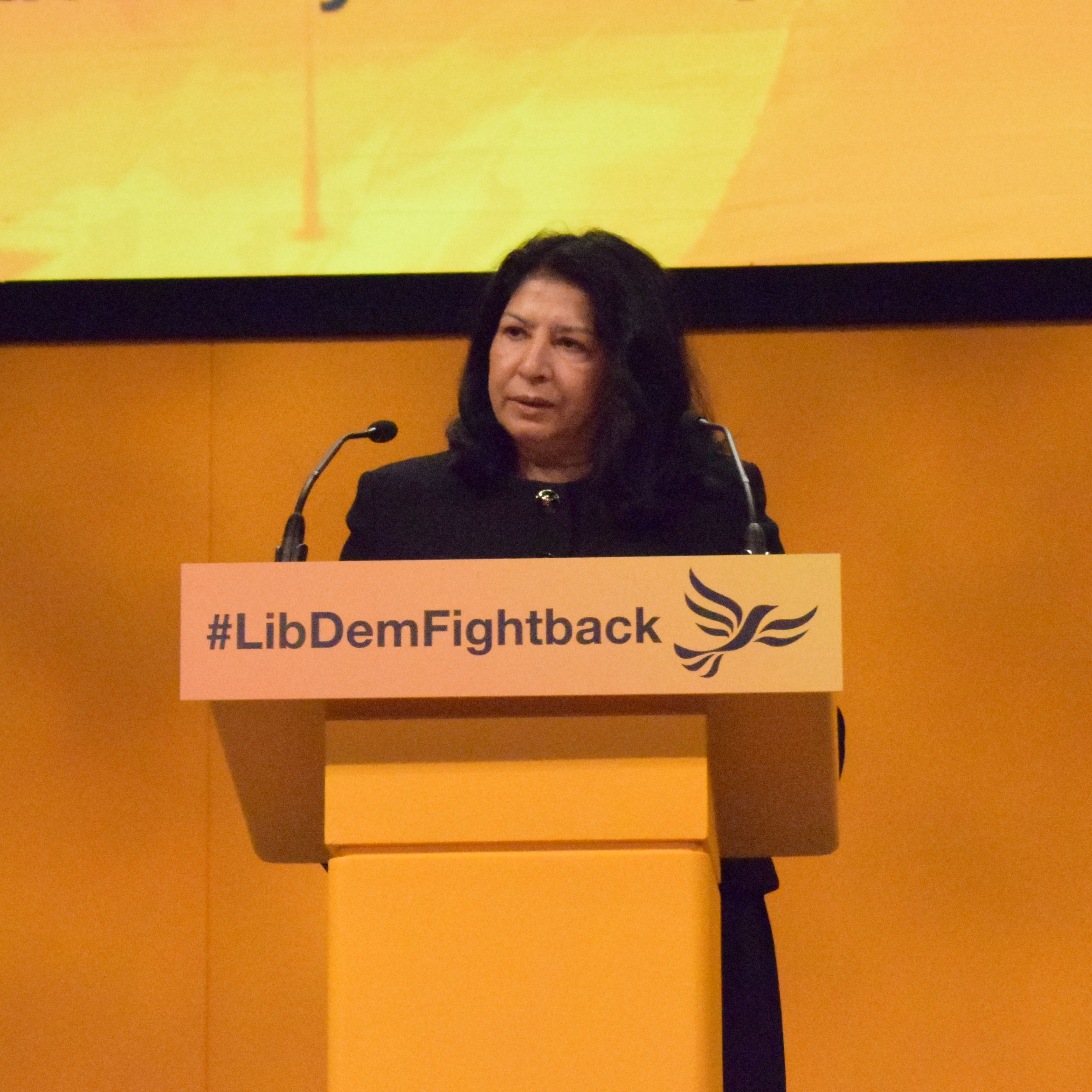 Zahida Manzoor addressing the 2015 Liberal Democrats autumn conference in the Bournemouth International Centre